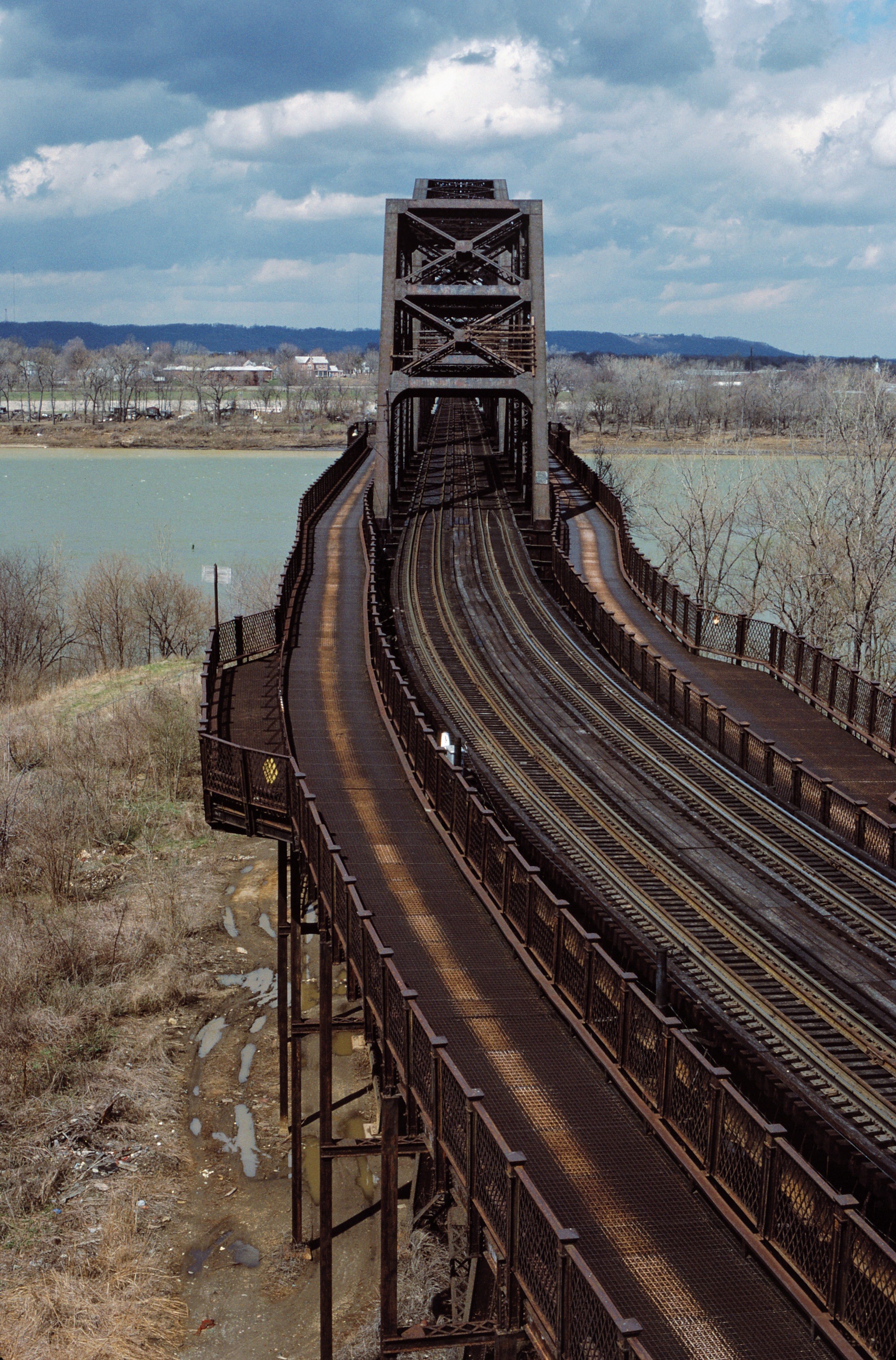 Kentucky and Indiana (K&I) Bridge (looking NNW from I-64 near foot of 33rd Street, Louisville, Kentucky)